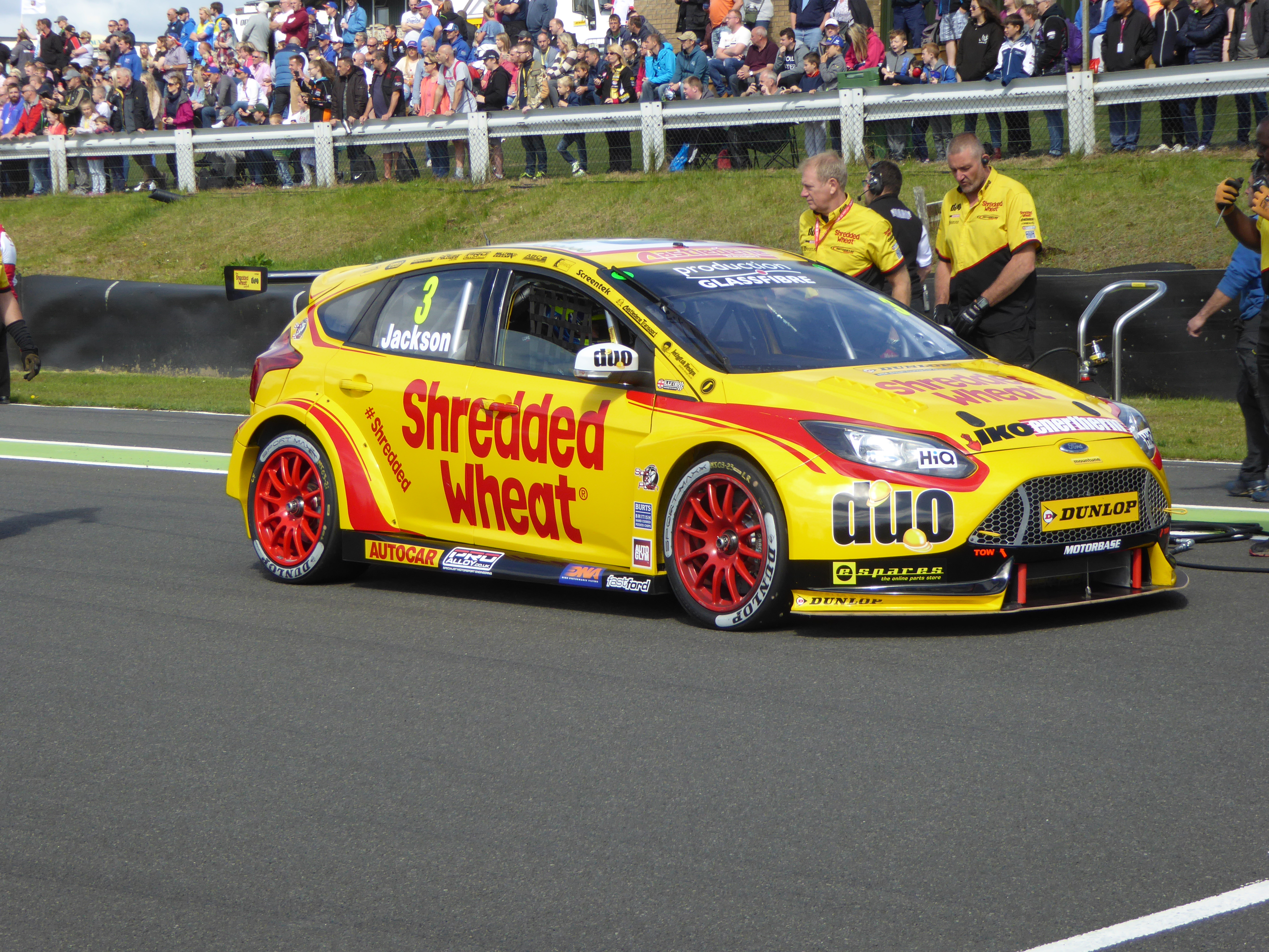 Mat Jackson (Team Shredded Wheat Racing with Duo), at the Knockhill round of the 2017 British Touring Car Championship.